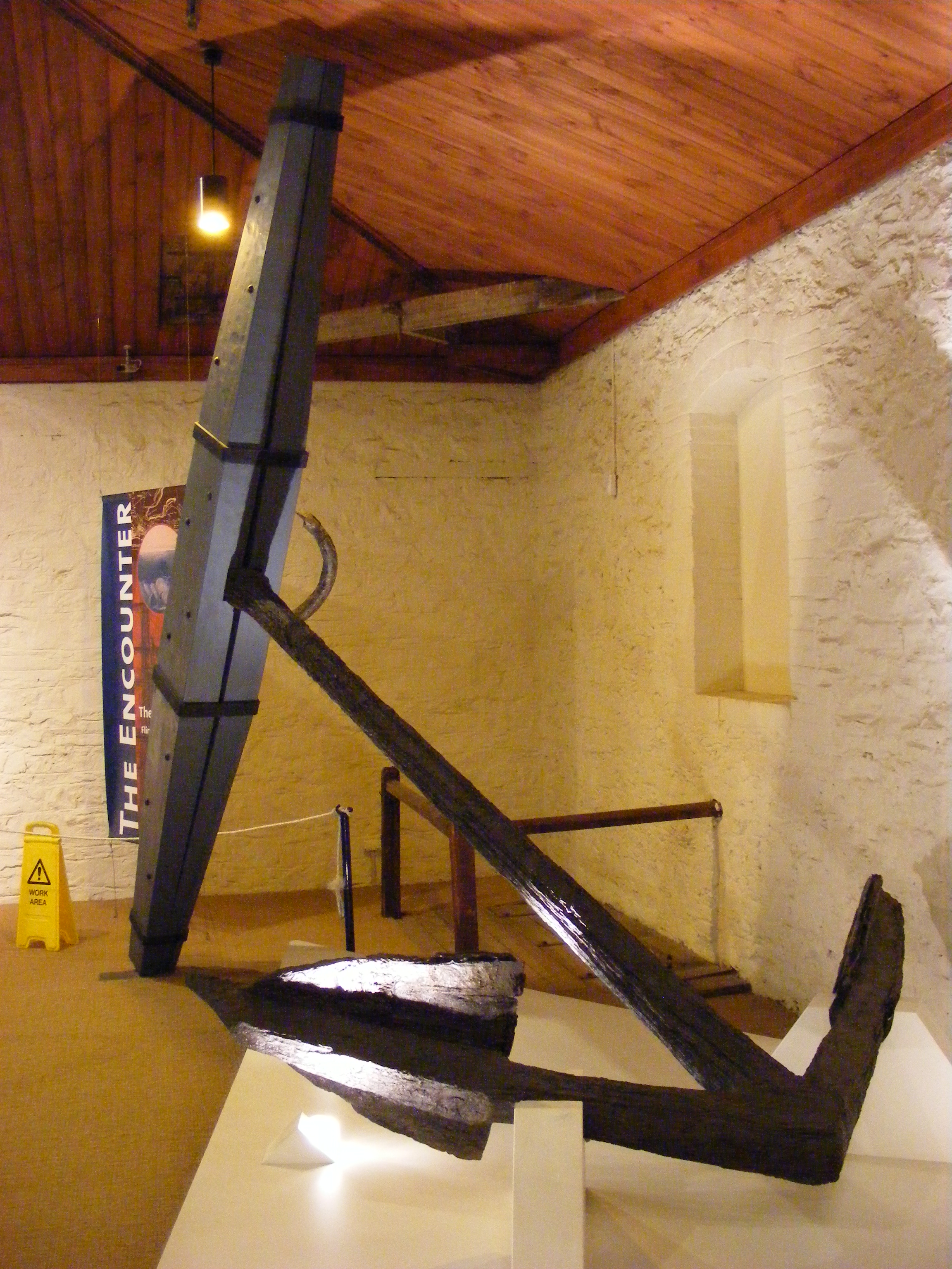 Anchor from H.M.S. Investigator. Dropped by Matthew Flinders on his voyage of 1801 – 1802. On display at the South Australian Maritime Museum, Port Adelaide, South Australia